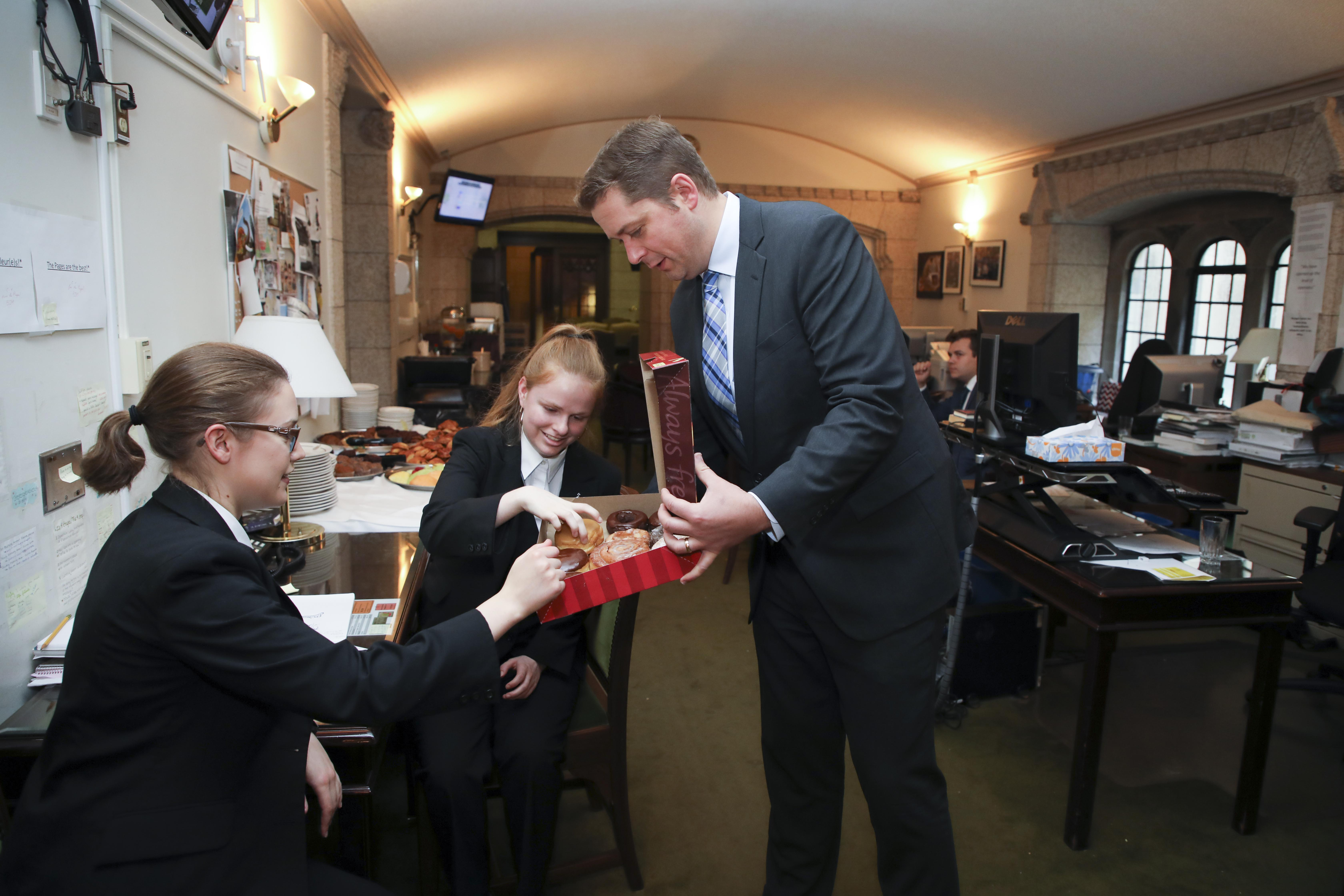 Thanking the fantastic Pages for all of their hard work and help during the overnight marathon voting.